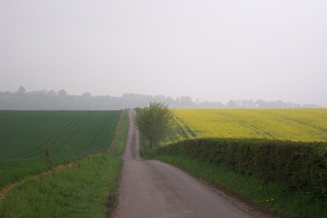 Roman Road on Ashley Down.